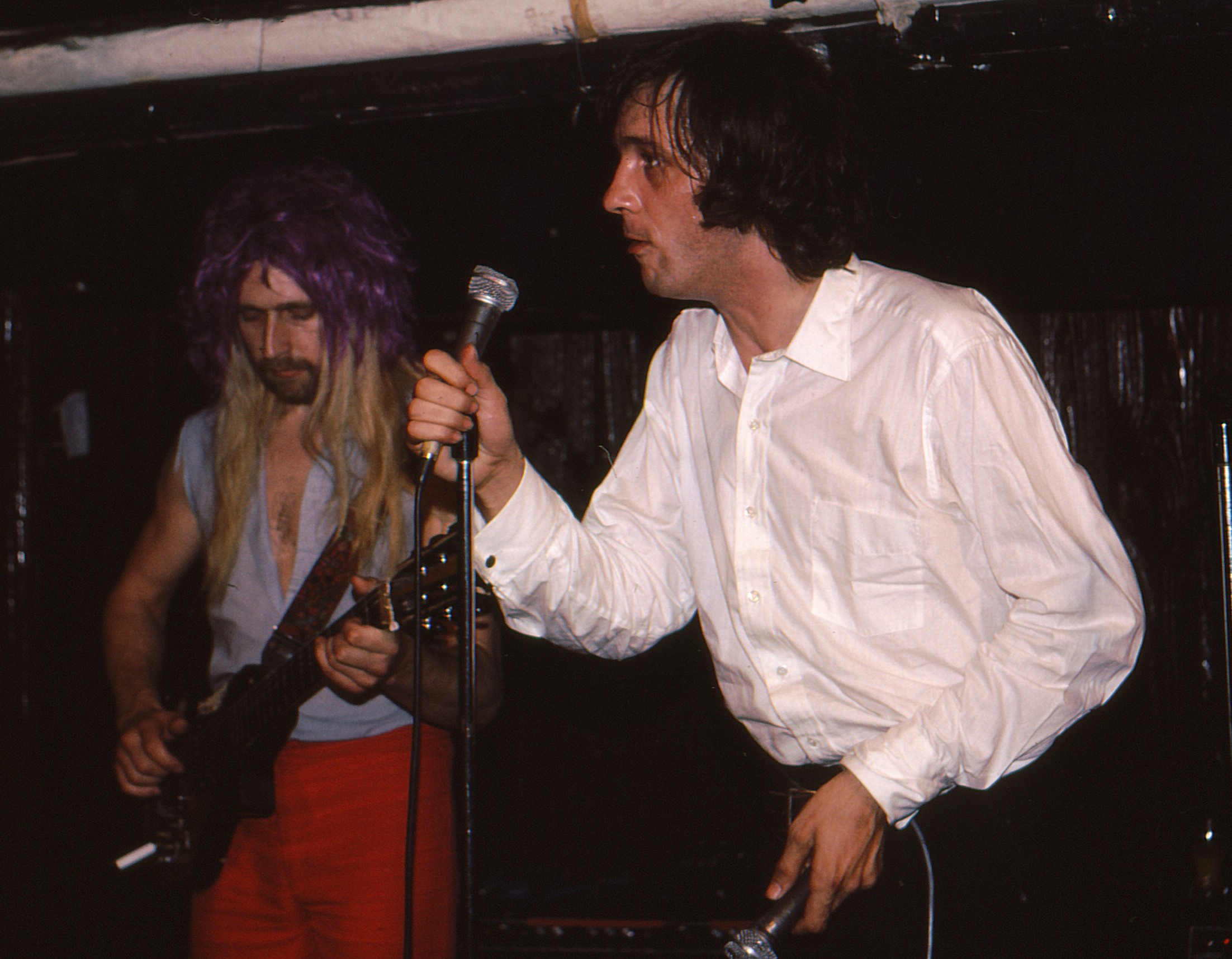 John Otway (right) and Wild Willy Barrett perform at Toronto's Hotel Isabella on September 2, 1981